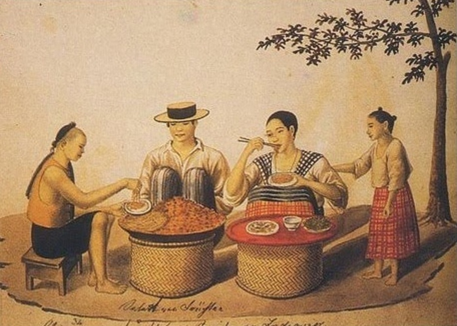 A vedor (persumedly presumably a Chinese vendor) serving a noodles to the Filipinos that using Chopsticks to eat noodles